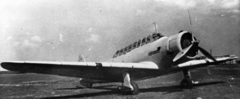 PictionID:45406595 - Catalog:16_006804 - Title:Vultee V-11 in USSR 1941 - Filename:16_006804.TIF - Image from the Ray Wagner Collection. Ray Wagner was Archivist at the San Diego Air and Space Museum for several years and is an author of several books on aviation --- ---Please Tag these images so that the information can be permanently stored with the digital file.---Repository: San Diego Air and Space Museum